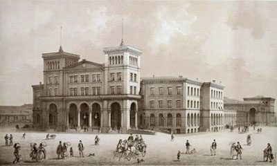 The image is taken from the painting „Empfangsgebäude des Görlitzer Bahnhofes in Berlin”, from: Zeitschrift für Bauwesen, Verlag v. Ernst & Korn in Berlin, 1872